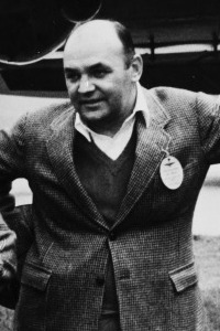 PictionID:42253559 - Title:Roy Grumman and Jake Swirbul with G-44 prototype Jun40 (mfr via RJF) - Catalog:17_000056 - Filename:17_000056.tif - ---------Image from the René Francillon Photo Archive. Having had his interest in aviation sparked by being at the receiving end of B-24s bombing occupied France when he was 7-yr old, René Francillon turned aviation into both his vocation and avocation. Most of his professional career was in the United States, working for major aircraft manufacturers and airport planning/design companies. All along, he kept developing a second career as an aviation historian, an activity that led him to author more than 50 books and 400 articles published in the United States, the United Kingdom, France, and elsewhere. Far from “hanging on his spurs,” he plans to remain active as an author well into his eighties.-------PLEASE TAG this image with any information you know about it, so that we can permanently store this data with the original image file in our Digital Asset Management System.--------------SOURCE INSTITUTION: San Diego Air and Space Museum Archive